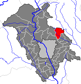 This map shows the area of the Gemeinde (municipality) Kumberg in the Bezirk (district) Graz-Umgebung, Styria, Austria.